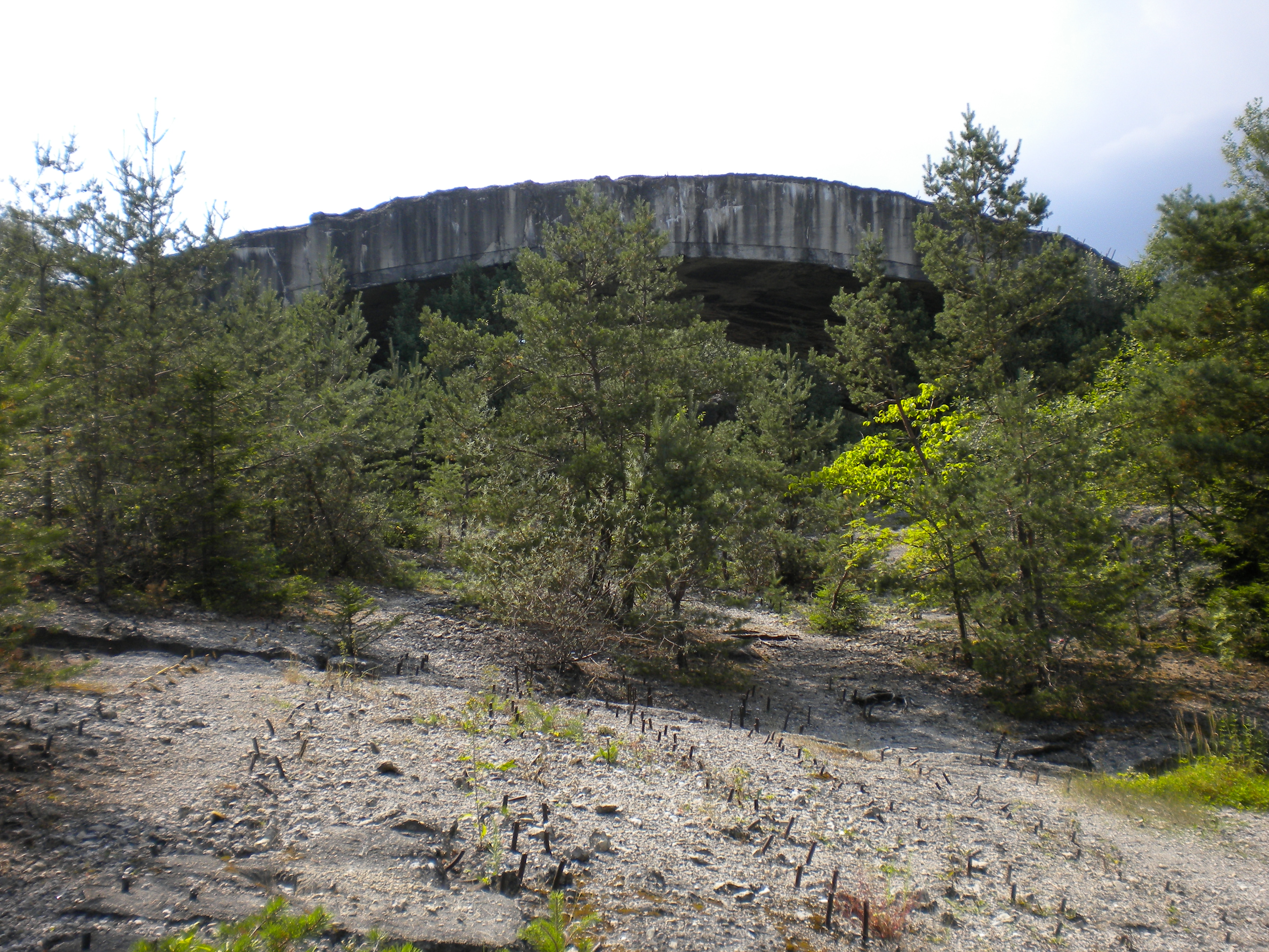 The single remaining arch of Weingut I, a partially underground bunker factory begun in 1944 and abandoned at the end of WWII. The ruins are located in the Upper Bavarian district of Mühldorf.